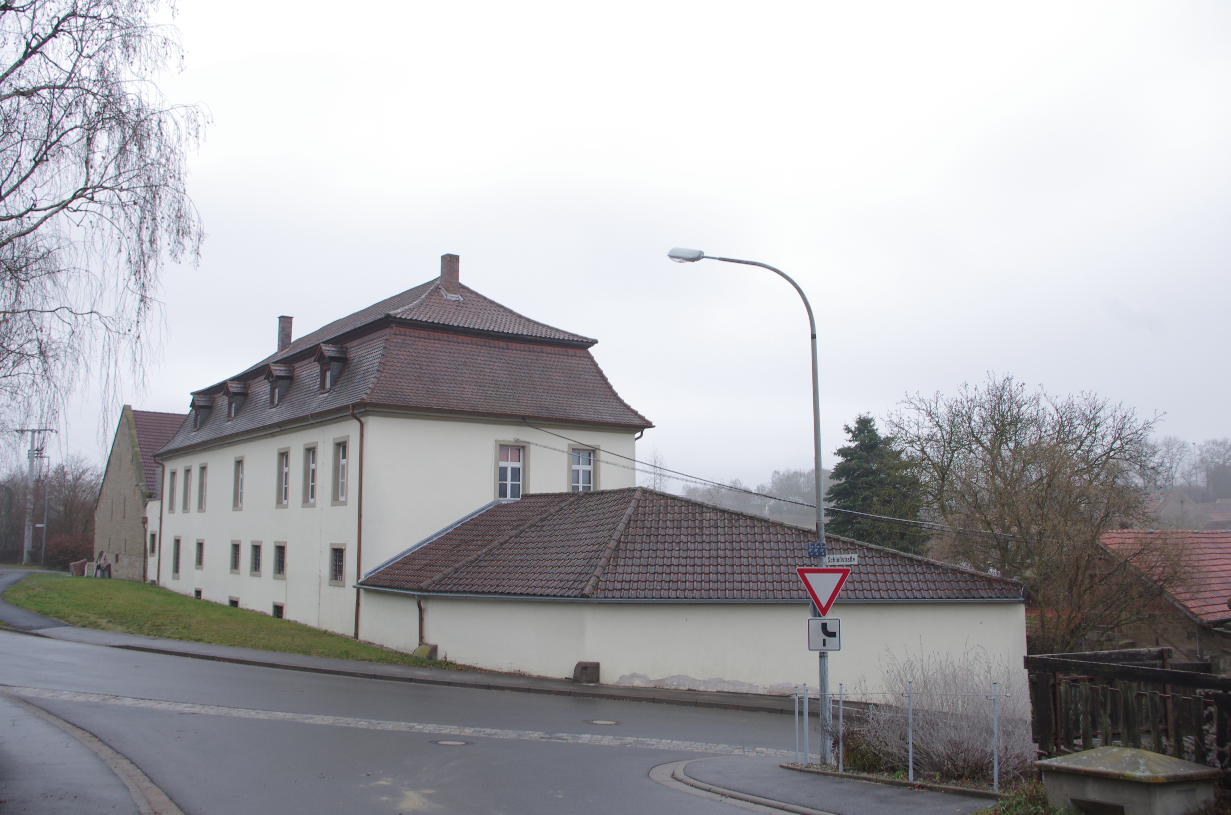 Object location49° 56′ 38.58″ N, 10° 08′ 55.72″ E